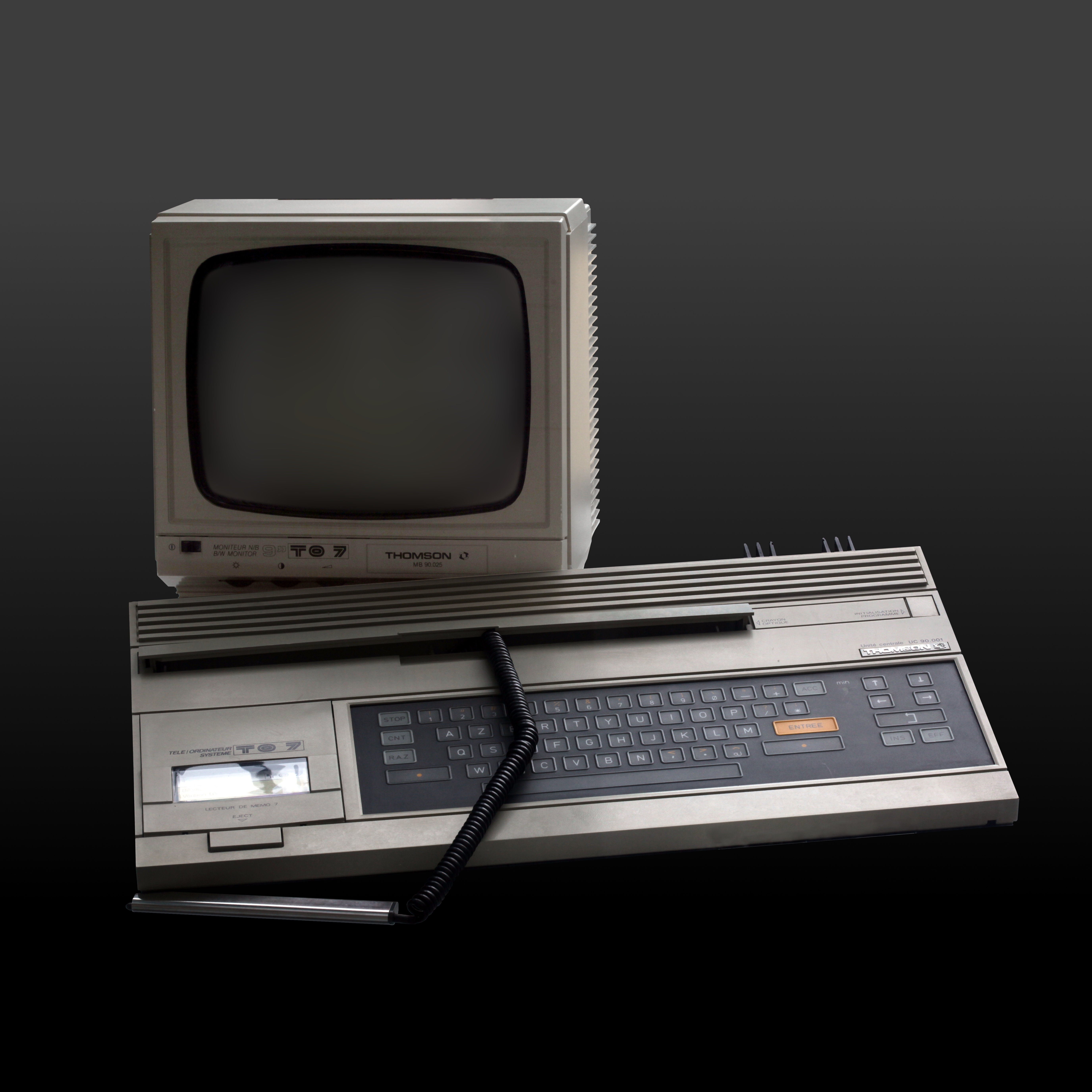 Thomson TO7 computer. On display at the Musée Bolo, EPFL, Lausanne. The making of this document was supported by Wikimedia CH.(Submit your project!) For all the files concerned, please see the category Supported by Wikimedia CH.